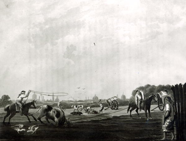 Painting by Emeric Essex Vidal (1791-1861): "South matadero". Buenos Aires. Argentina.